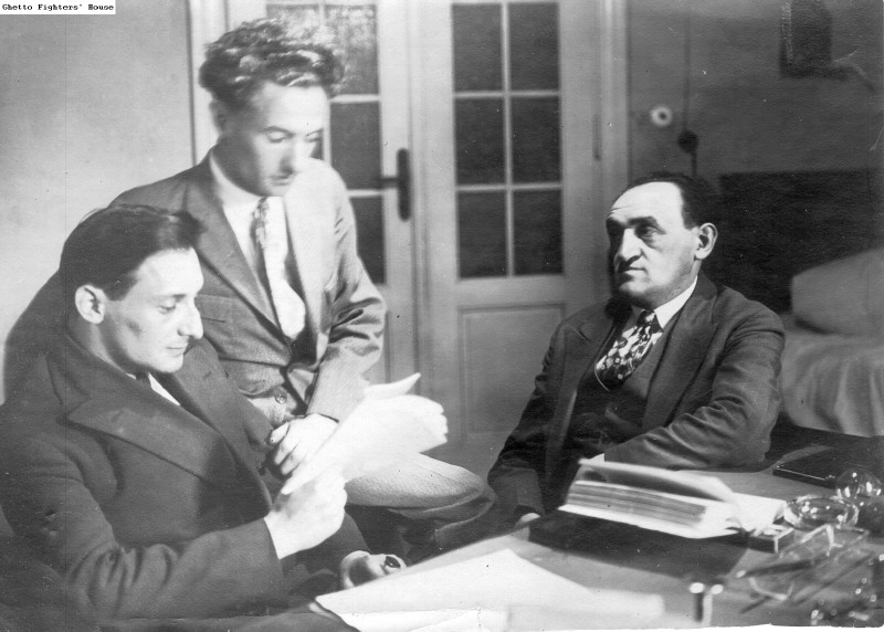 Jonas Turkow